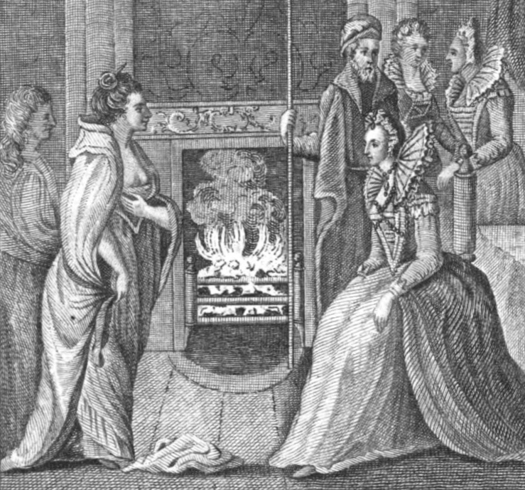 The meeting of Grace O'Malley and Queen Elizabeth I